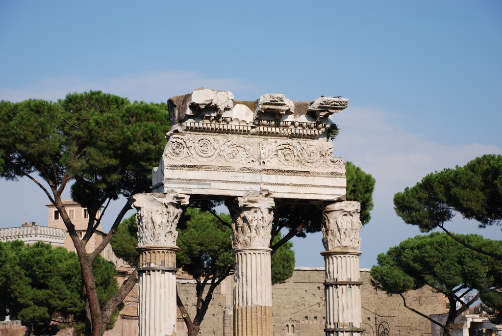 This temple was dedicate to "Venere Genitrice".